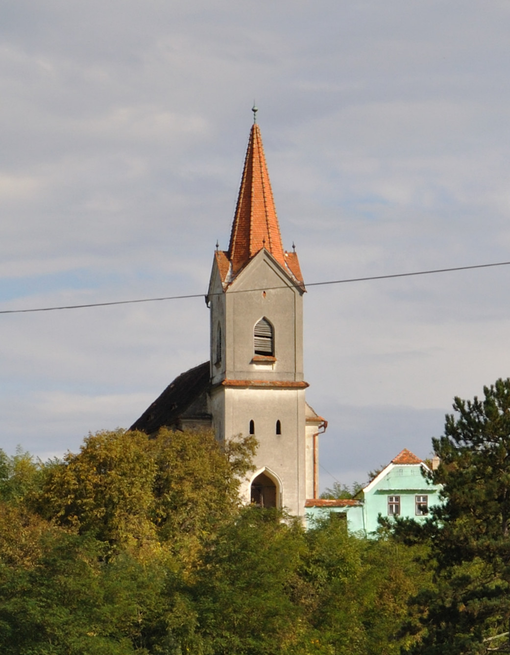 Lutheran church in Haşag, Sibiu county, Romania